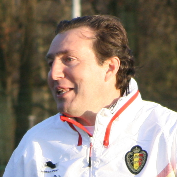 Marc Wilmots during a training session with the belgian Red Devils